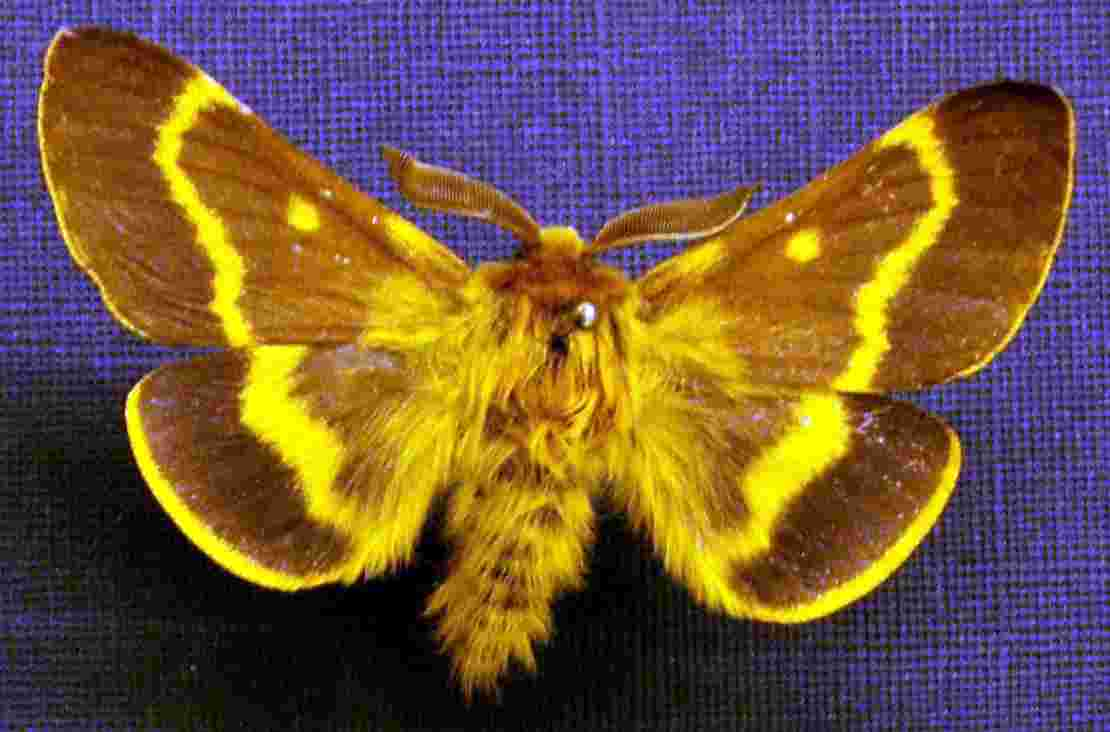 Male Lemonia dumi